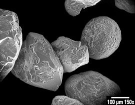 Grains of so-called “Ottawa Silica Sand” under an electron microscope. Magnification 150x. “Ottawa Sand” is a by-product of hydraulic mining of Ordovician orthoquartzites of the St. Peter Sandstone Formation of the Paleozoic intracratonic Illinois Basin.